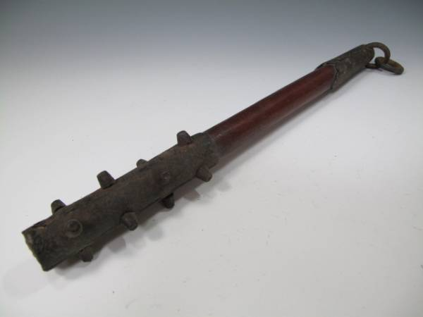 Small antique Japanese wood club with an iron cap on the head with iron spikes and an iron capped end piece.